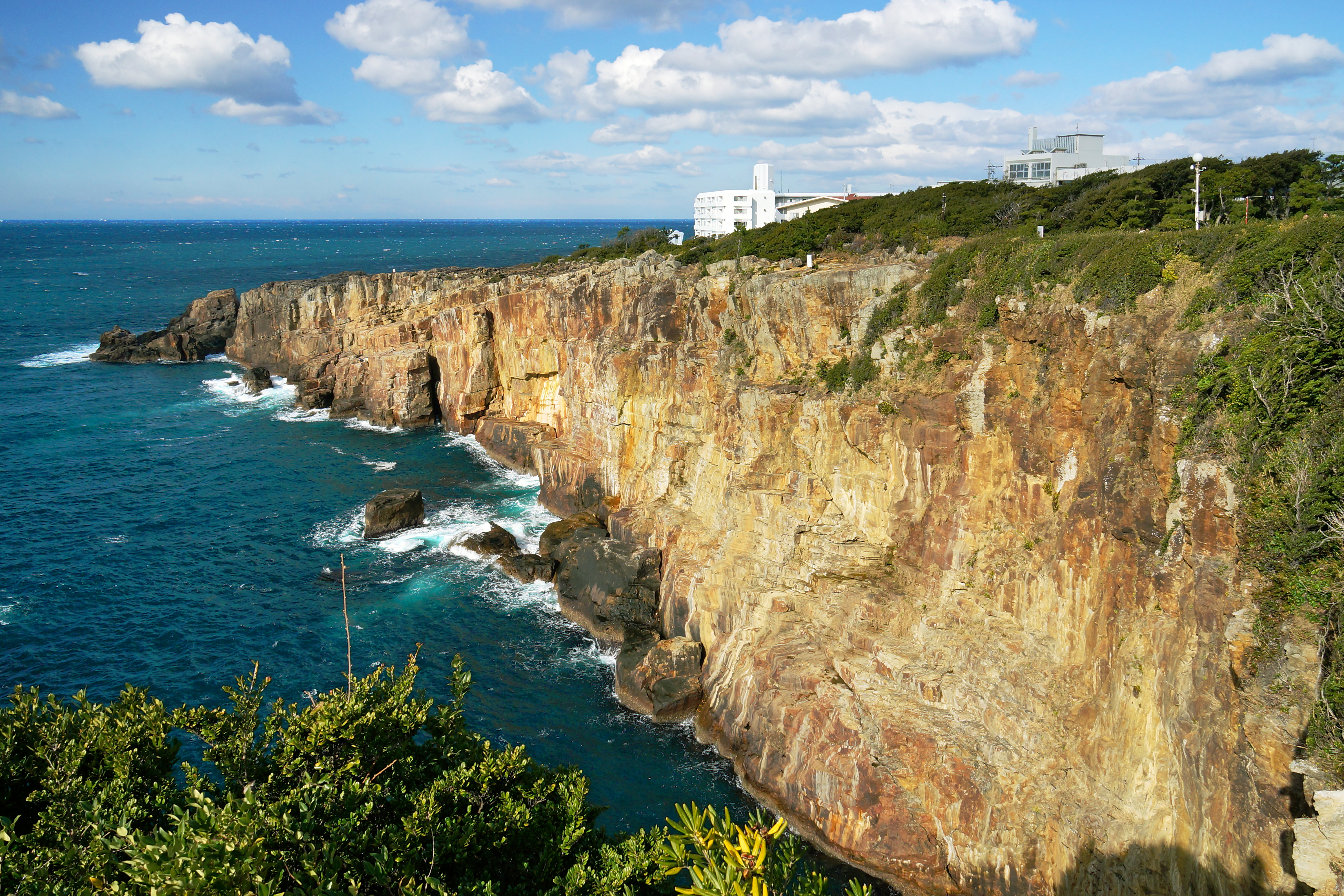 Sandanbeki in Shirahama, Wakayama prefecture, Japan.